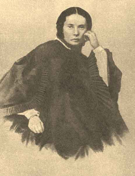 Maria Dostoevskaya (1824-1864), nee Konstant, also known as Maria Isaeva by her first husband family name. First wife of Fyodor Dostoyevsky.